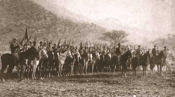 Boer Commando assembled from Pretoria. 1899.